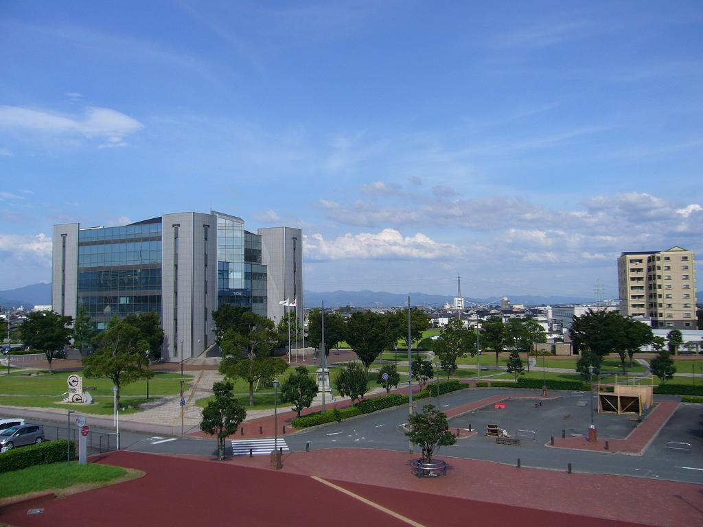 This photograph is a SunMesse Tosu in Tosu, Saga in Japan.